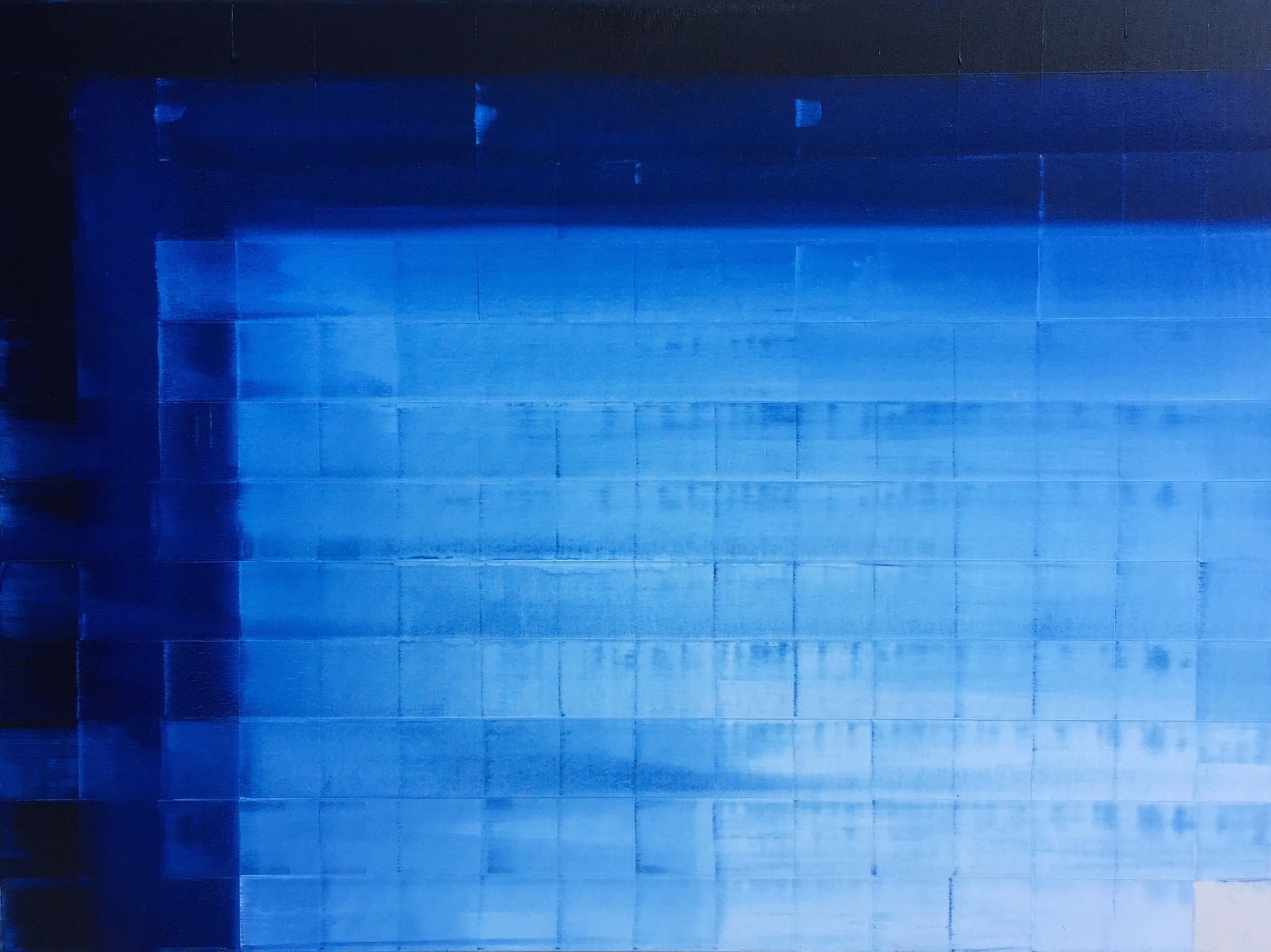 Todd WILLIAMSON, Searching the Void (36x48in), Oil on canvas (2016)